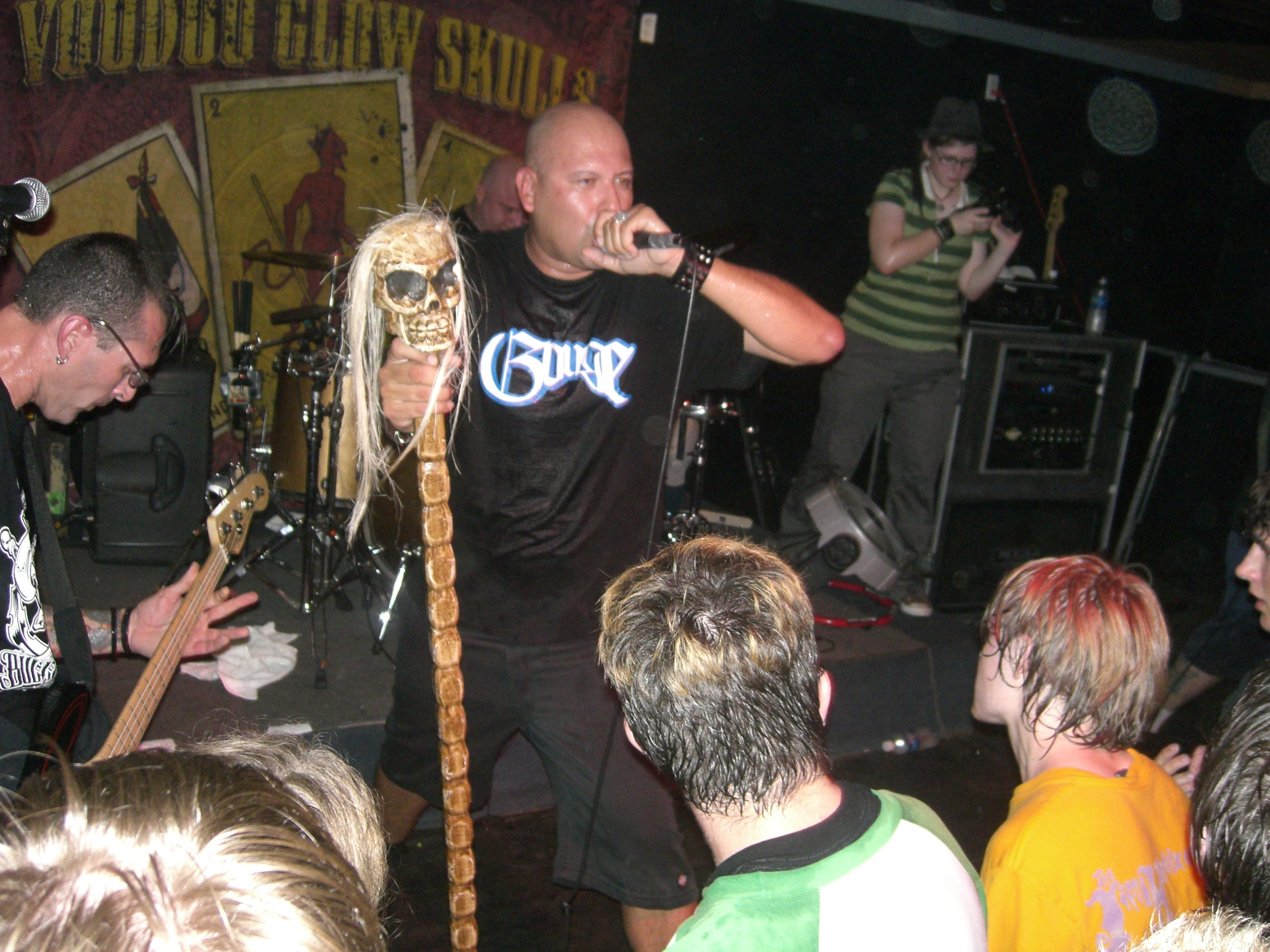 Voodoo Glow Skulls in Metairie, Louisiana